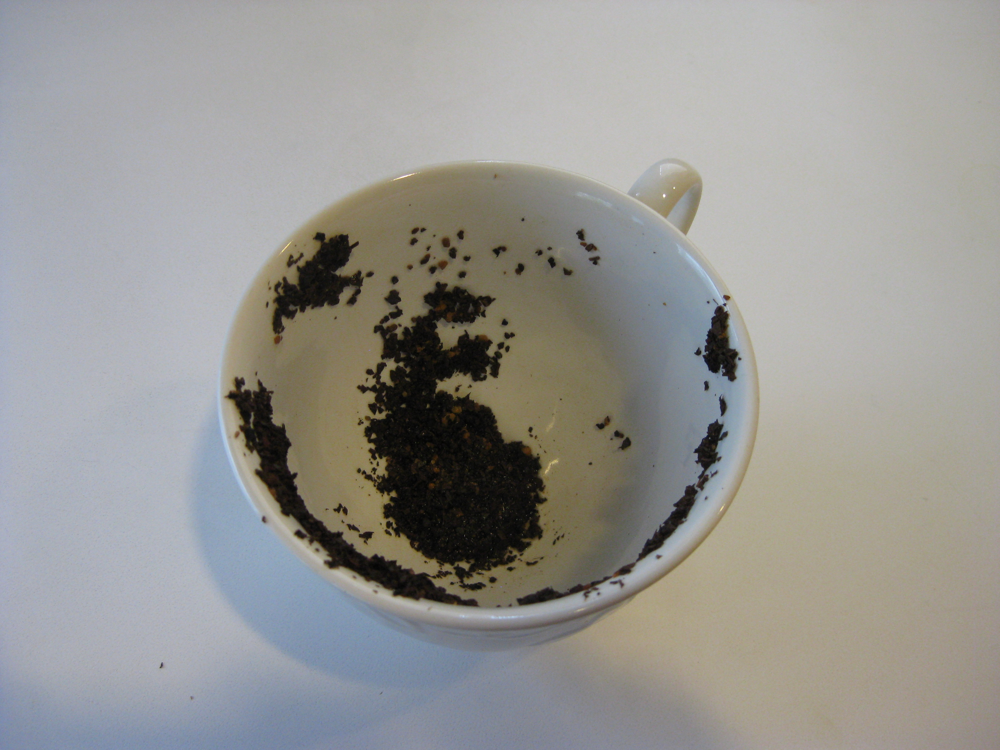 Tea leaf reading showing a dog and a flying bird